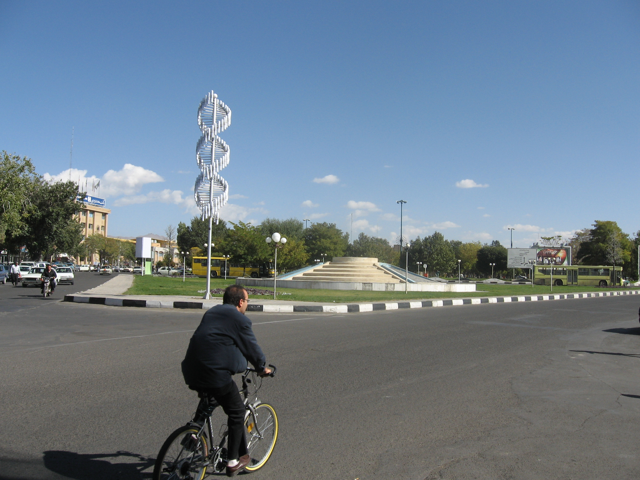 Daily life in Zanjan